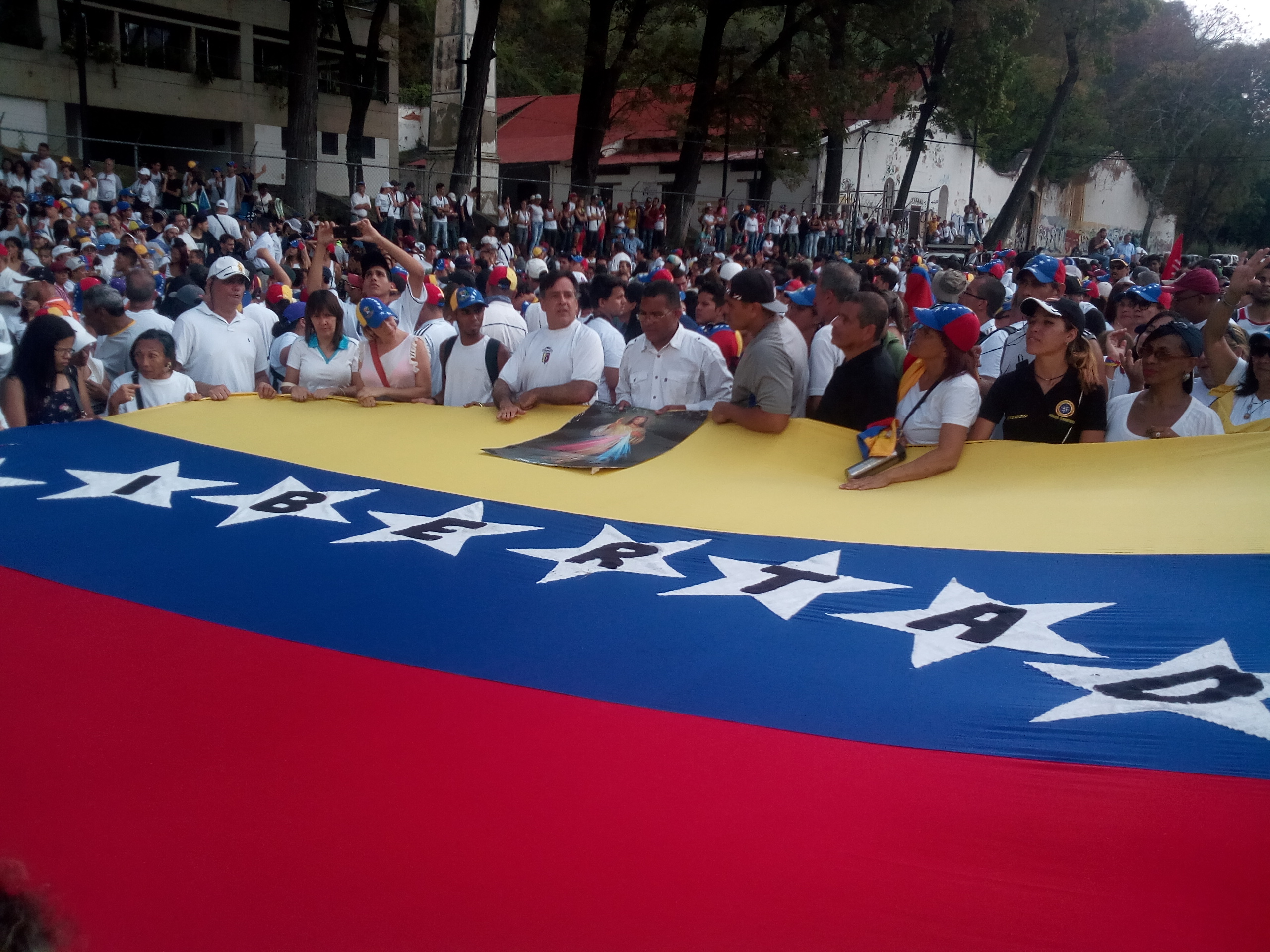 March of Silence in Venezuela, 22 April, 2017